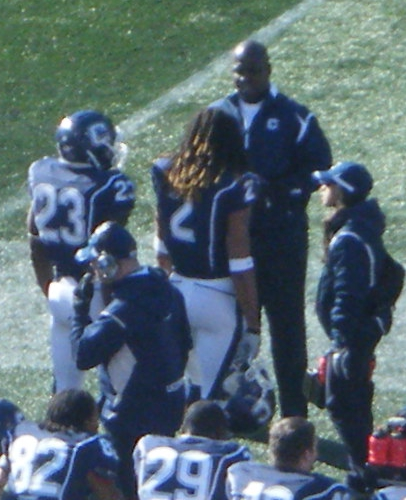 Connecticut running backs Jordan Todman (left) and Andre Dixon (center) talk to running backs coach Terry Richardson (top) during the en:2010 Bowl.